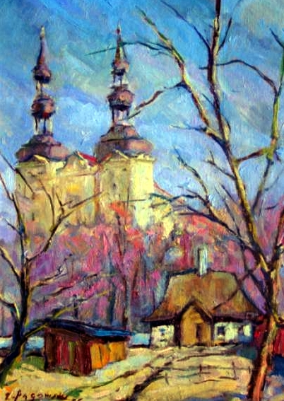 photo of a painting by Zdzislaw Pagowski, depicting Kolegiata Lowicka, one of the town's main churches